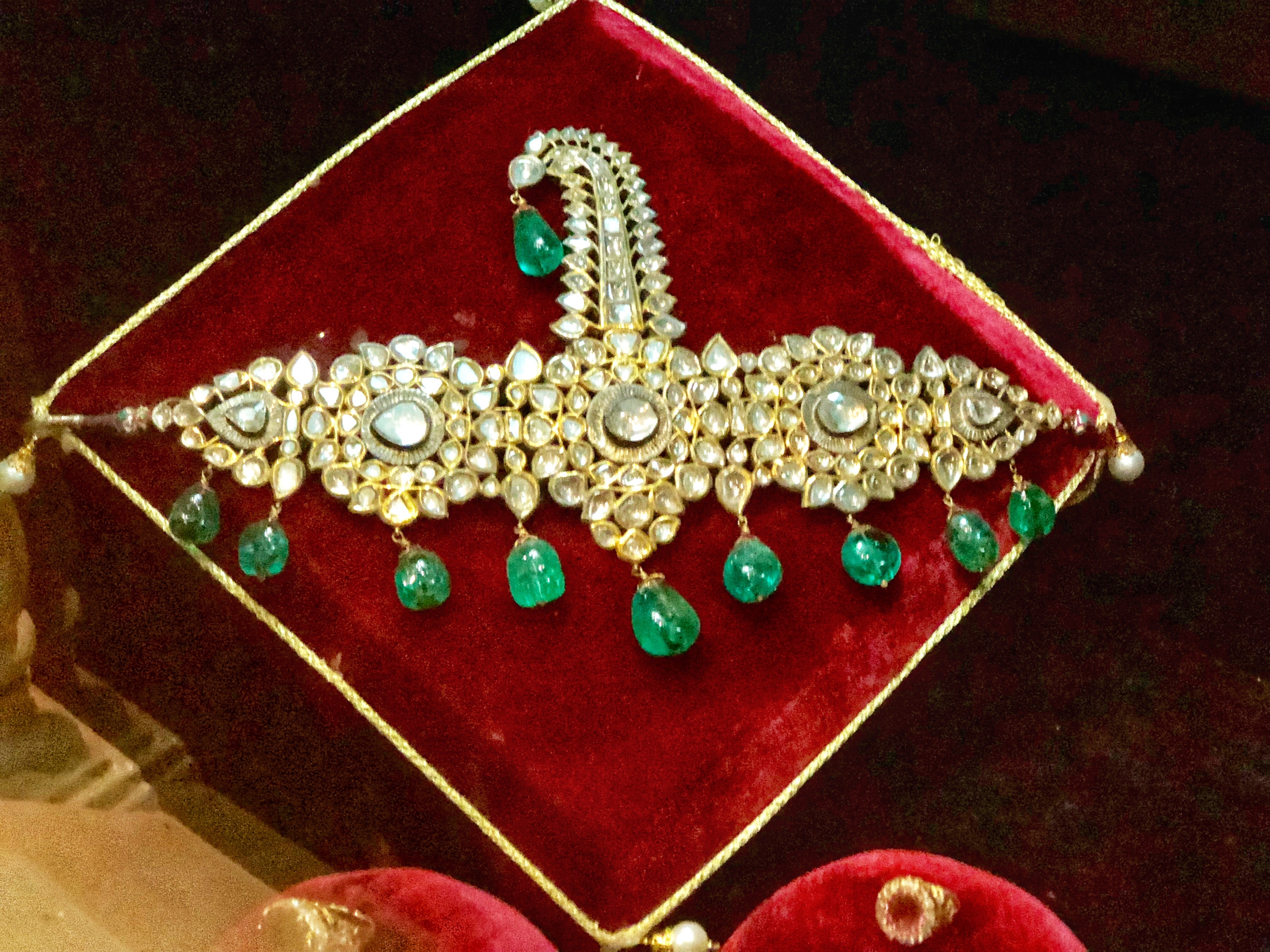 Every Nizam had a special crown made for him for ceremonial purposes and they mostly used to be made of emeralds and diamonds and pearls all set in gold.